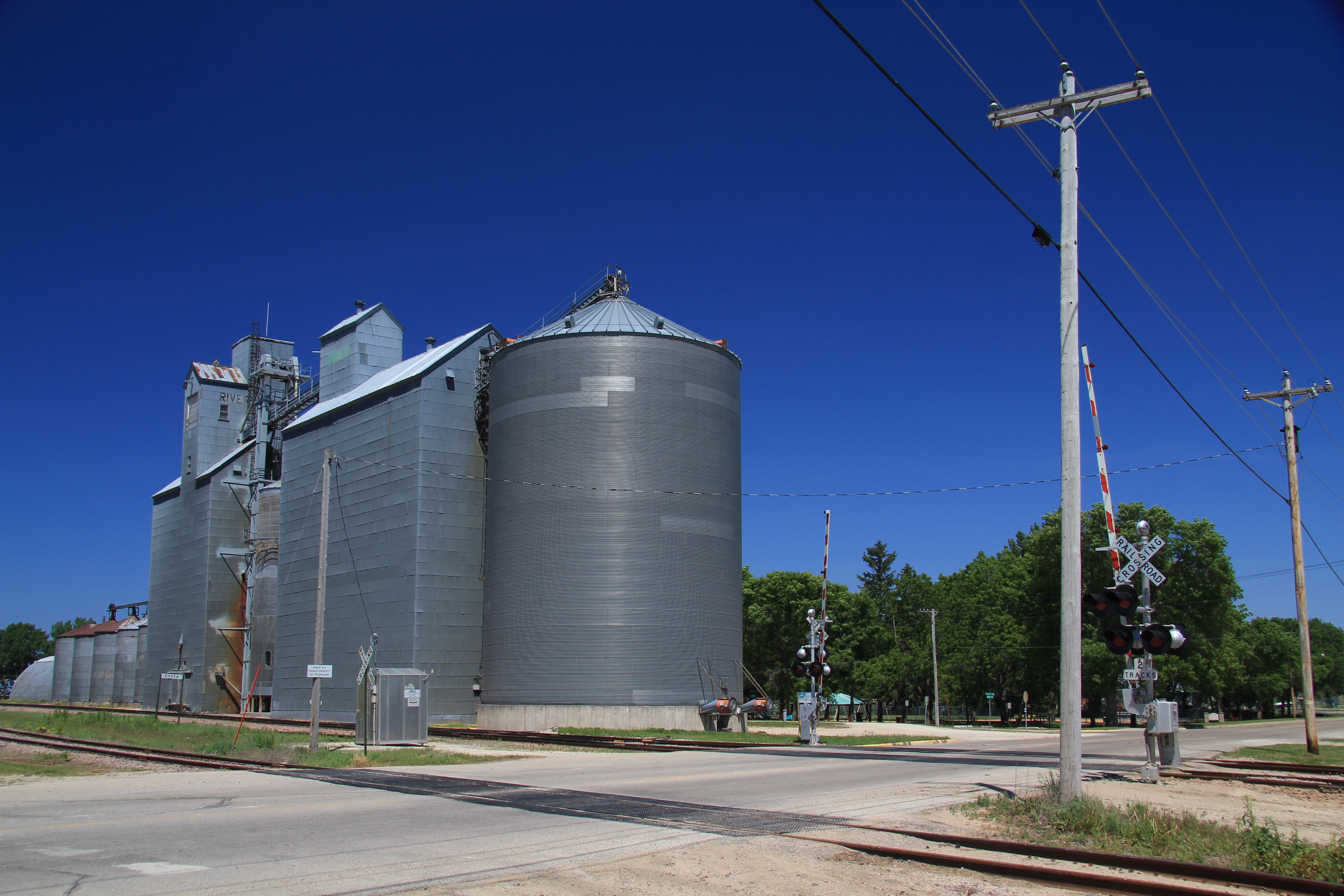 Grain elevator in Eyota, Minnesota, USA